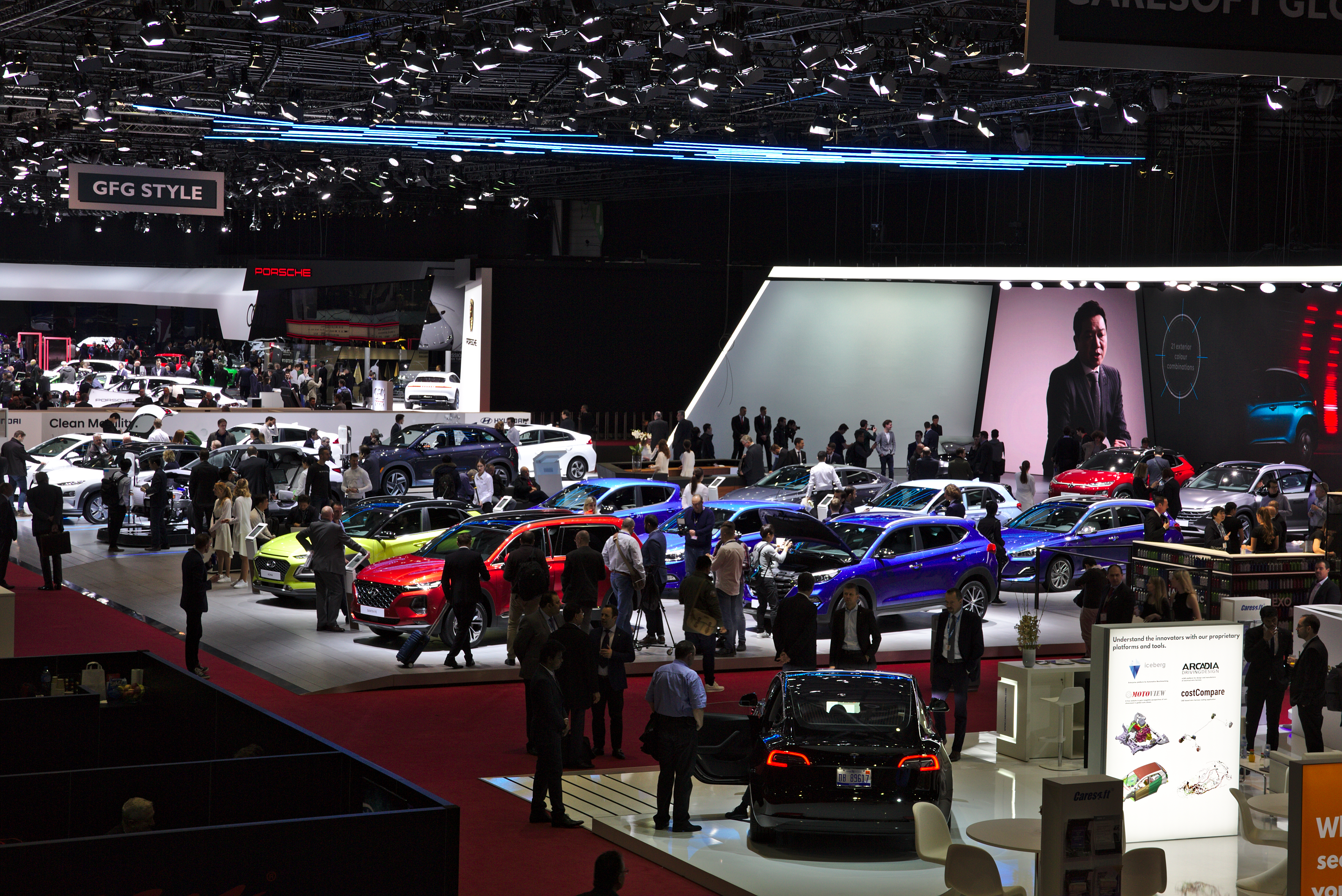 Hyundai at Geneva Motorshow 2018